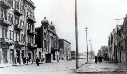 Opera theater building at Nizami street in Baku, was built in 1910. Picture was made in 1914.